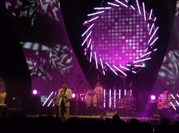 Tumsa at concert in Arena Riga